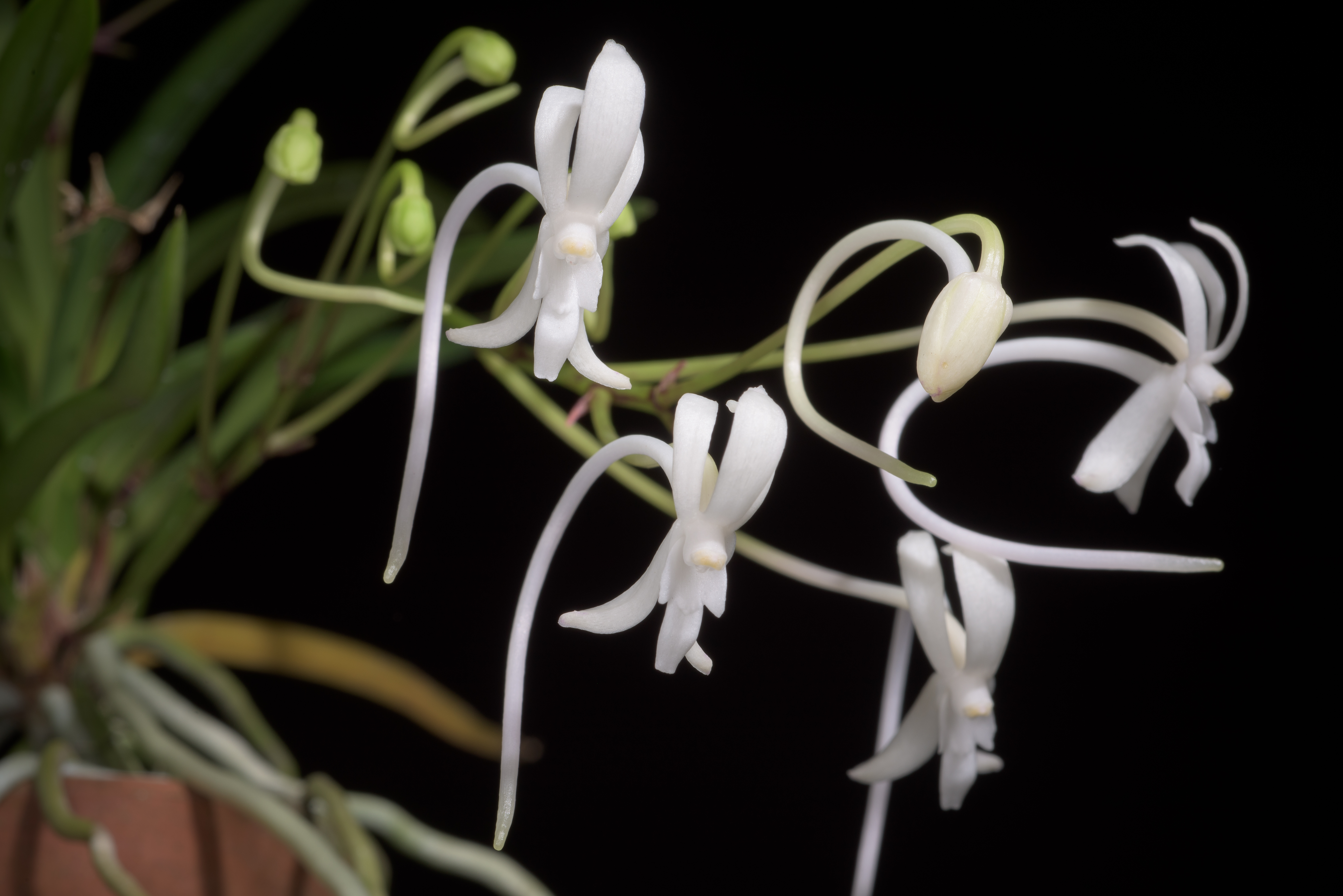 Distribution: China to Temp. E. Asia 36 CHC CHN CHS 38 JAP KOR NNS Found in Asia-Temperate China China North-Central, China South-Central, China Southeast, Eastern Asia Japan, Korea, Nansei-shoto